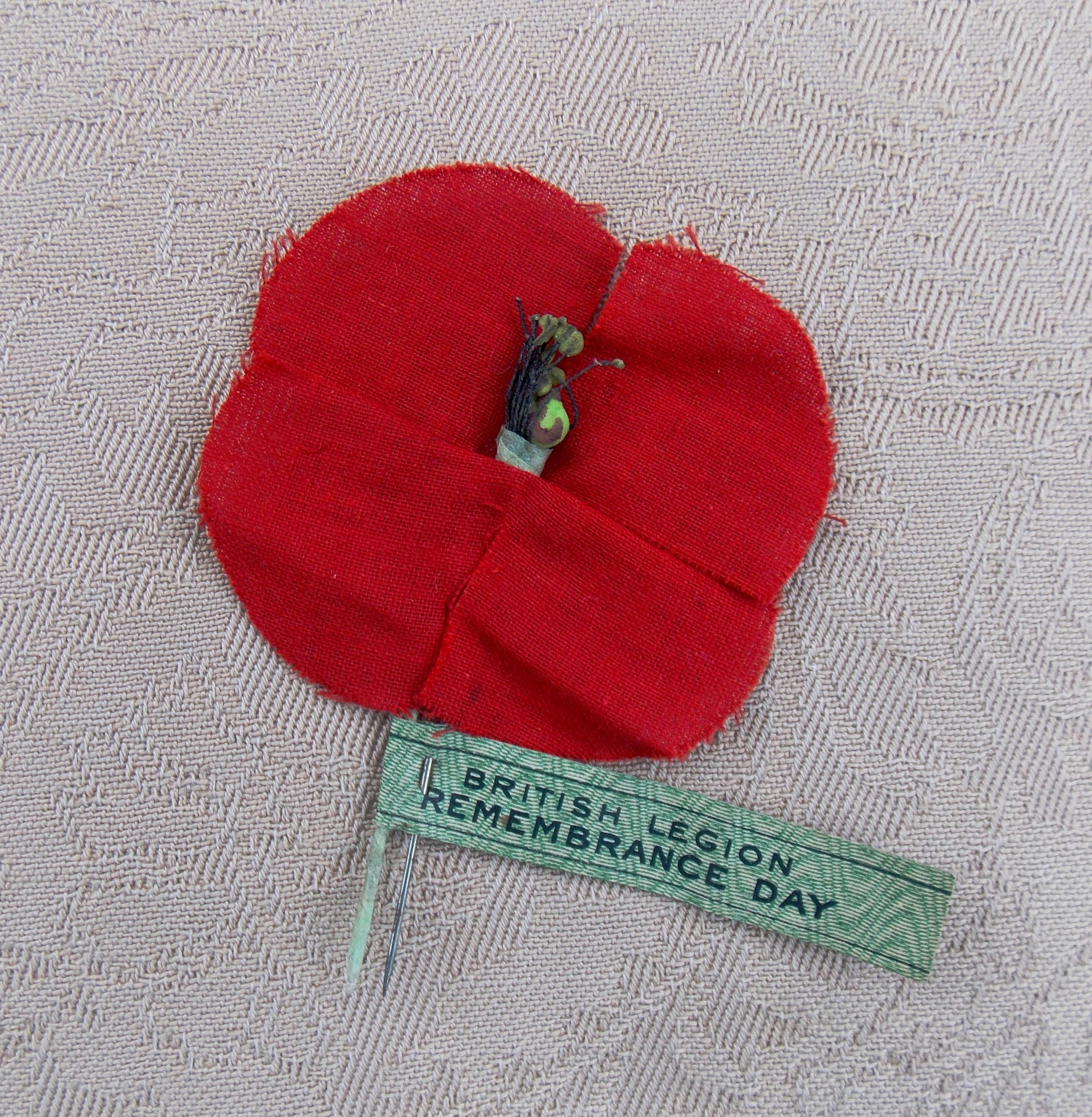 This is a 1921 cotton British Remembrance Poppy. Cotton and silk poppies were made by Madame Guérin's widows & orphans in the devastated areas of France. Madame Guérin was "The Poppy Lady from France" and the "Originator of the Poppy Day".